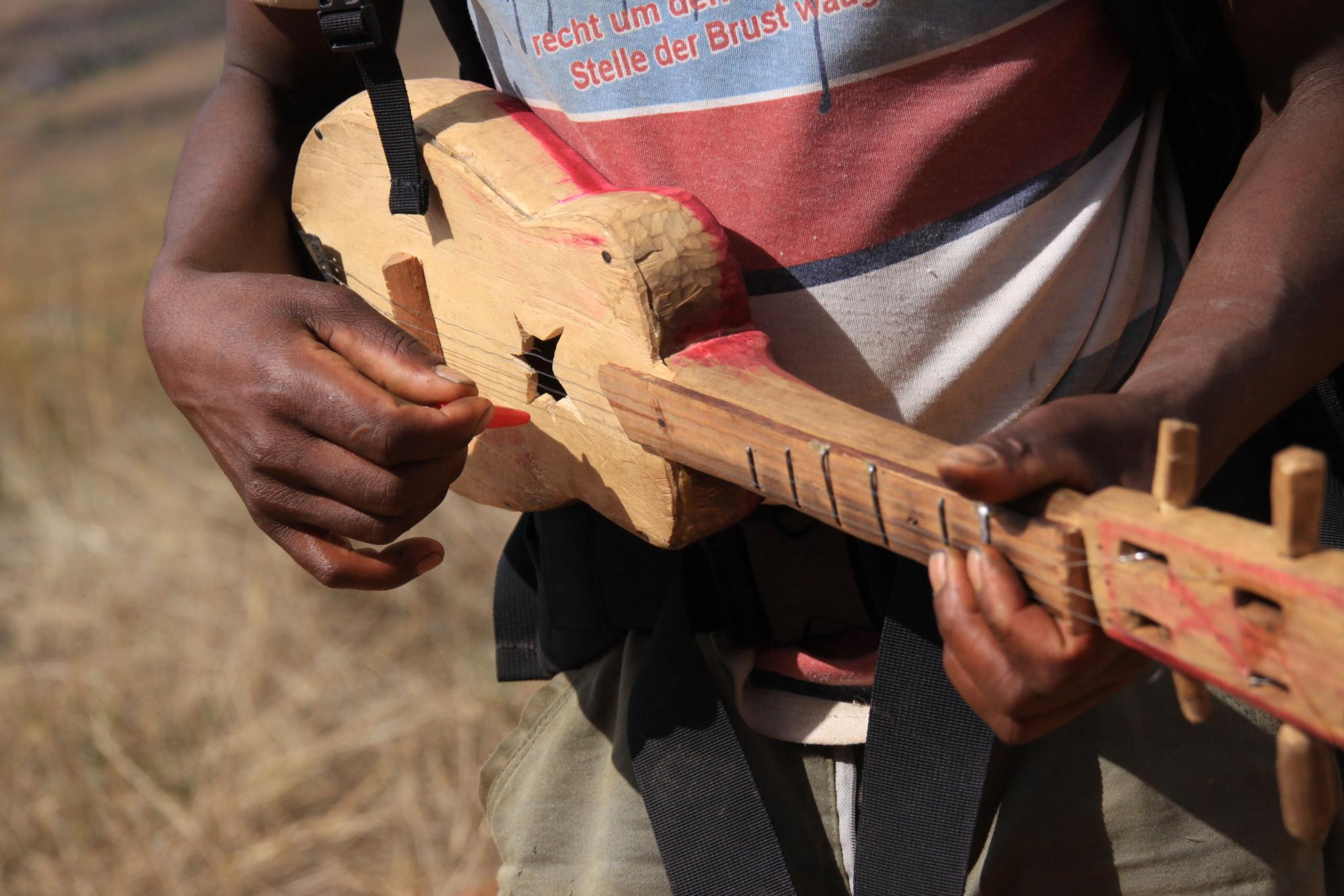 Kabosy